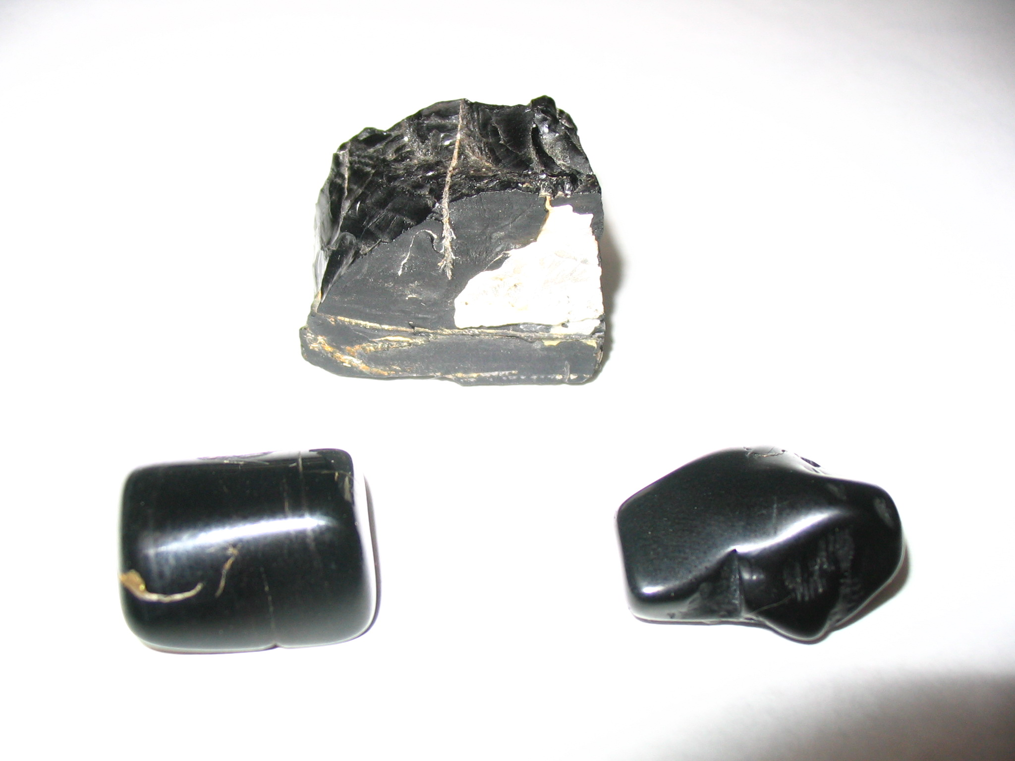 Jet from Holzmaden, Germany